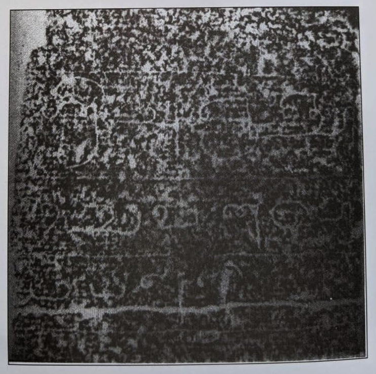 Welikanda Annurruvar inscription, 13th century AD